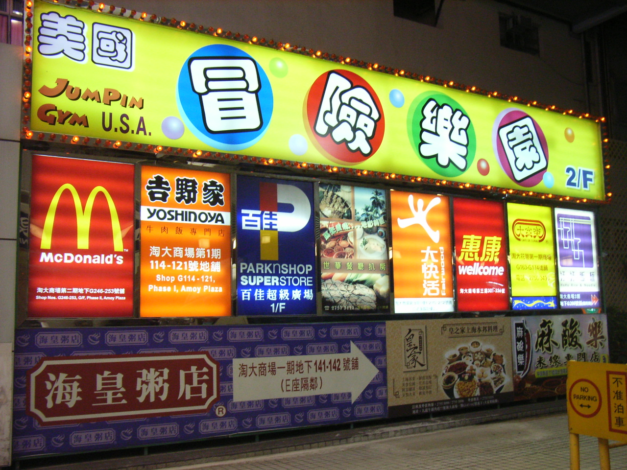 Template